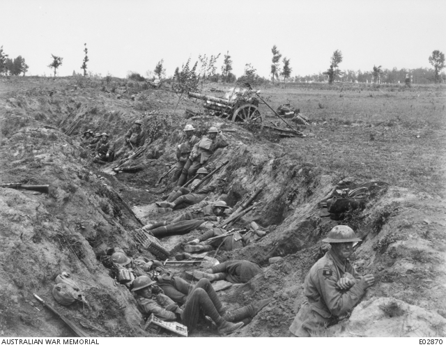 Trench near Crepy Wood during the attack upon Lihons. The 10th Battalion on 10 August 1918 in the Old Somme trench system near Lihons; Crepy Wood in the background, and some of the enemy field guns which destroyed the tanks with the 2nd Brigade on 9 August 1918.